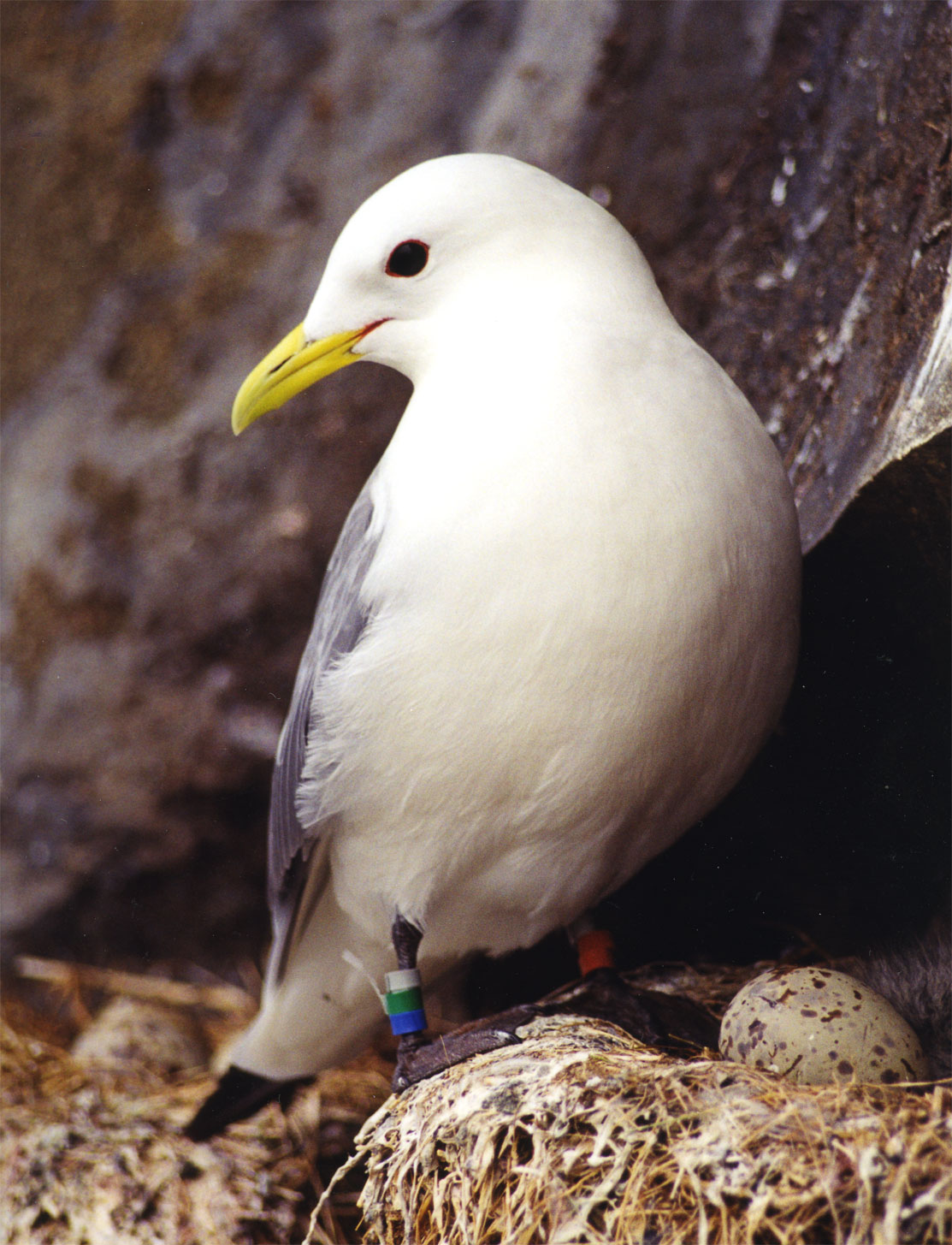 Description: Black-legged Kittiwake (Rissa tridactyla) at its nest (island of Hornøya, Northern Norway)